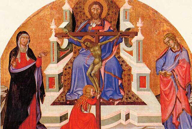 The upper panel, depicting the Holy Trinity, of an altarpiece made up of four tableaux. The other three tableaux depict the Visitation (lower centre panel), Saint Dominic (lower left panel), and Saint Christopher (lower right panel).